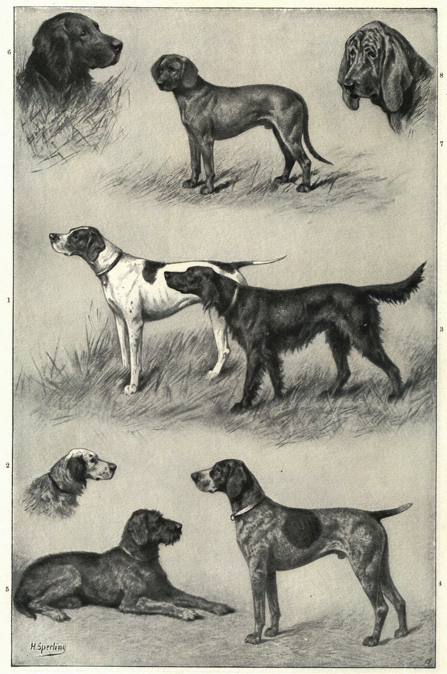 Dog Breeds Pointer English Setter Irish Setter German Shorthaired Pointer German Wirehaired Pointer German Longhaired Pointer Unknown Bloodhound